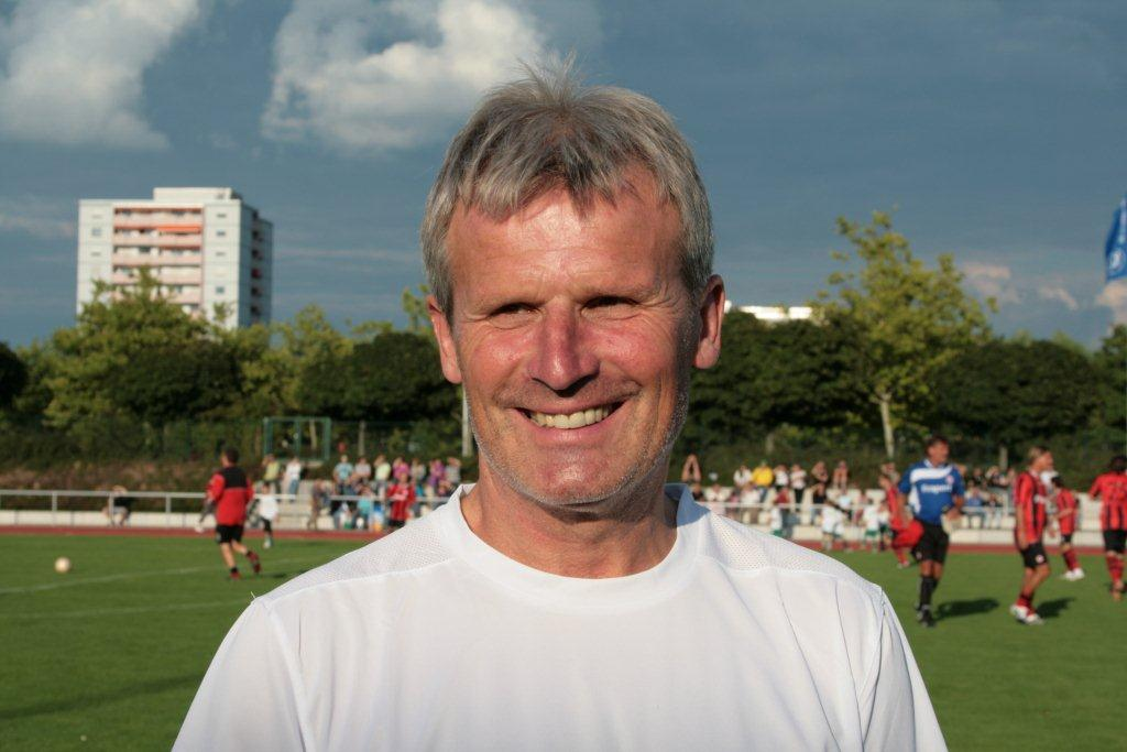 Stephan Groß at the benefit match KSC Altstars versus Eintracht Frankfurt Altstars on July, 30th 2010 in Karlsruhe